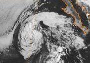 Hurricane Fausto near peak strength on 1990-07-16